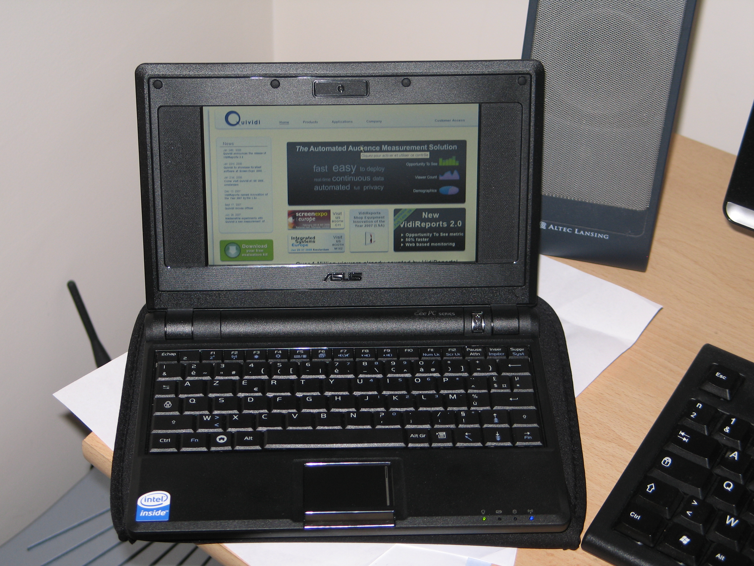 Asus EEE PC black